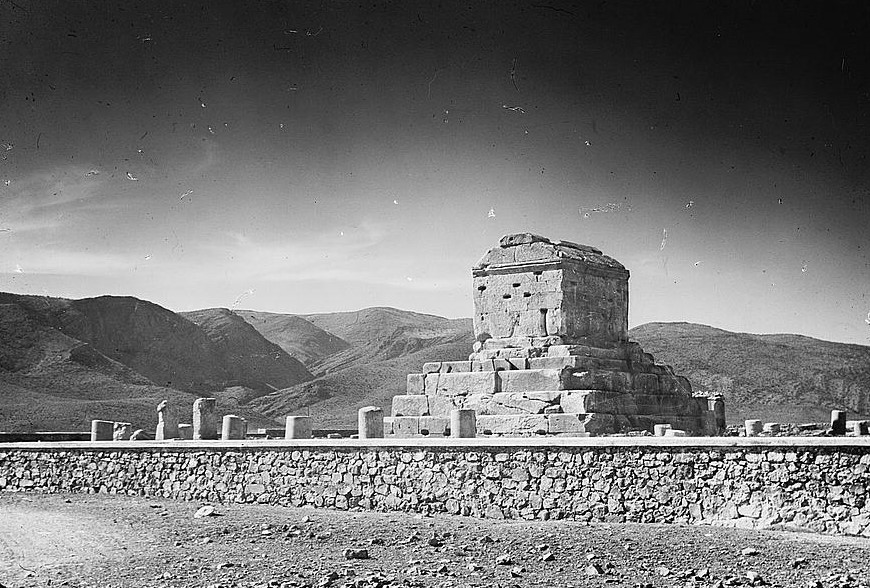 Tomb, Cyrus, Iran